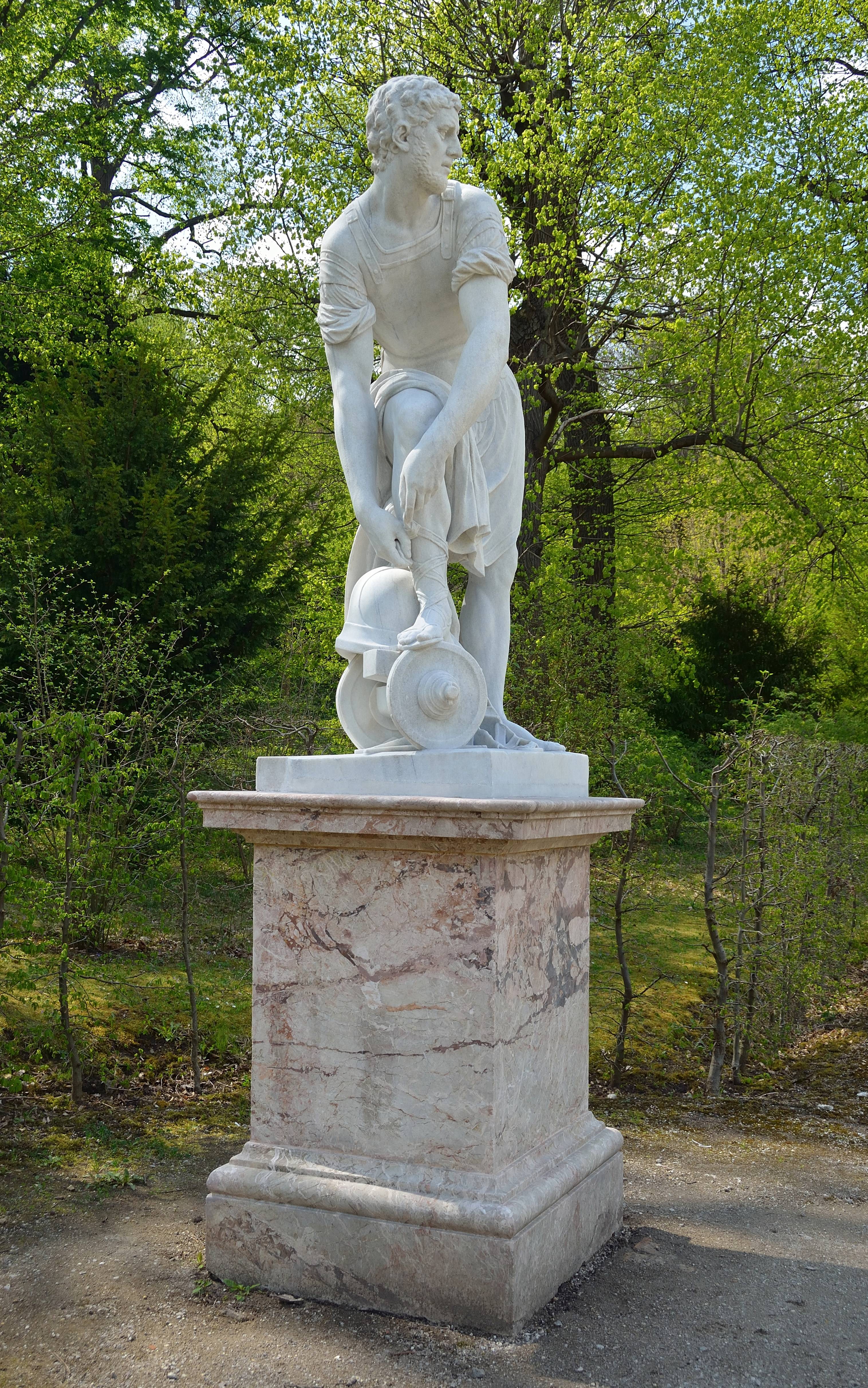 Statue of Cincinnatus in the gardens of Schönbrunn by Johann Christian Wilhelm Beyer